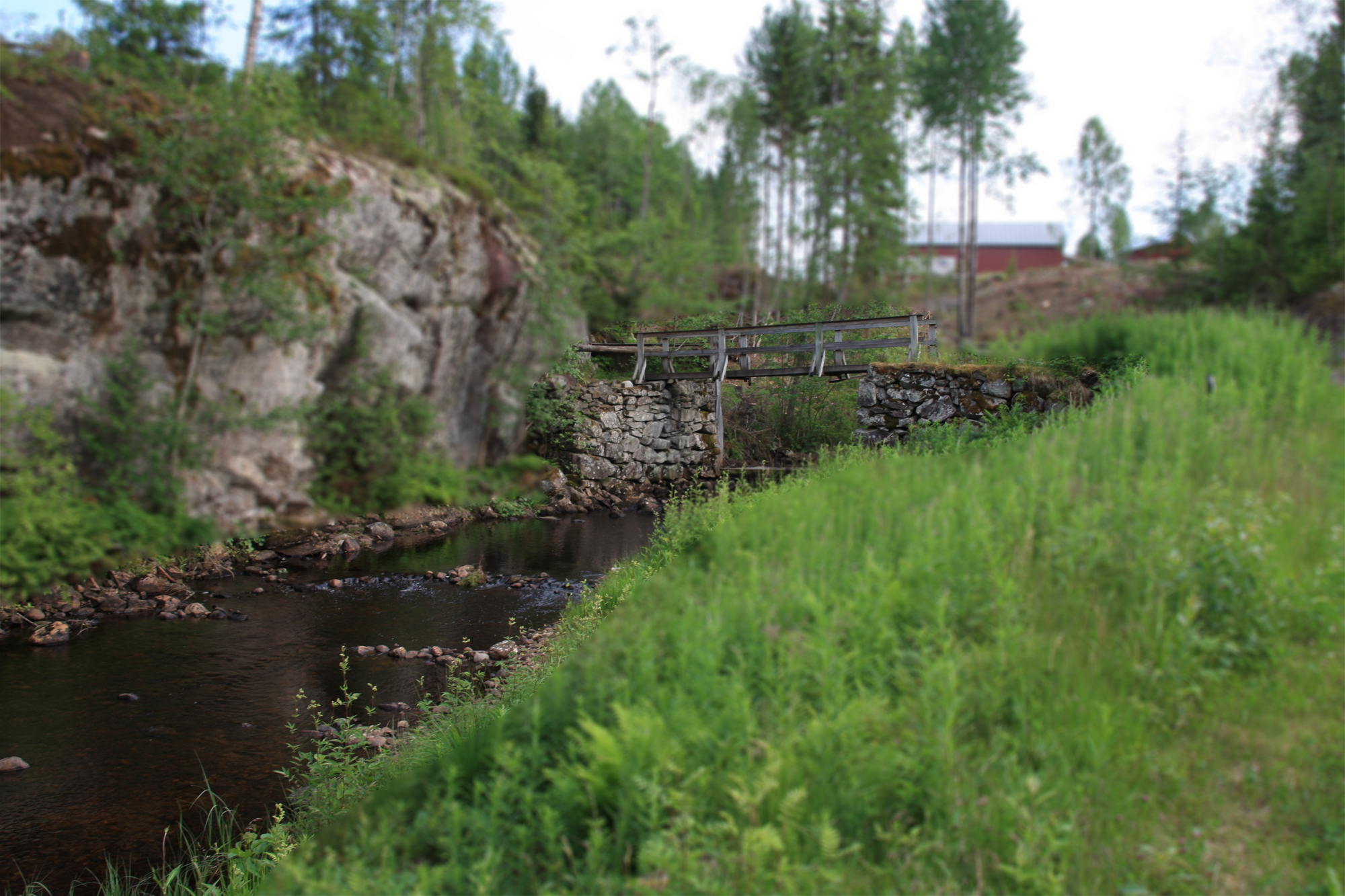 The Soot Canal - picture of old Lock (water transport)